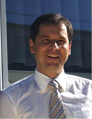 The Major of the City Freistadt in Upper Austria - Mag. Christian Jachs